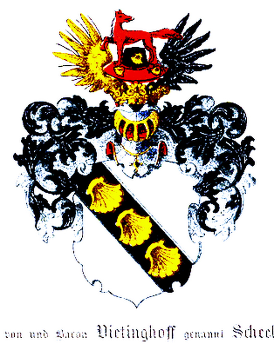 Coat of arms of von Vietinghoff family